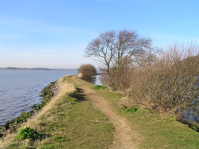 River Orwell from Loompit Lake